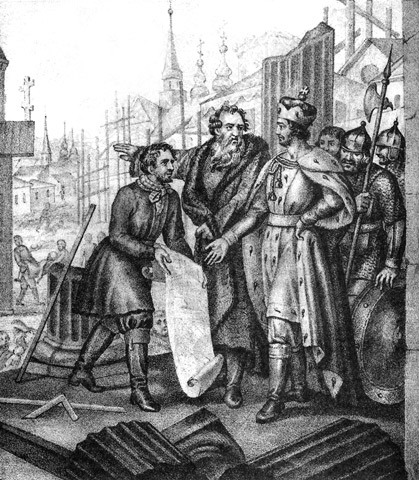 Grand Duke Yaroslav the city resumes after the devastation of the Tatars of Russia